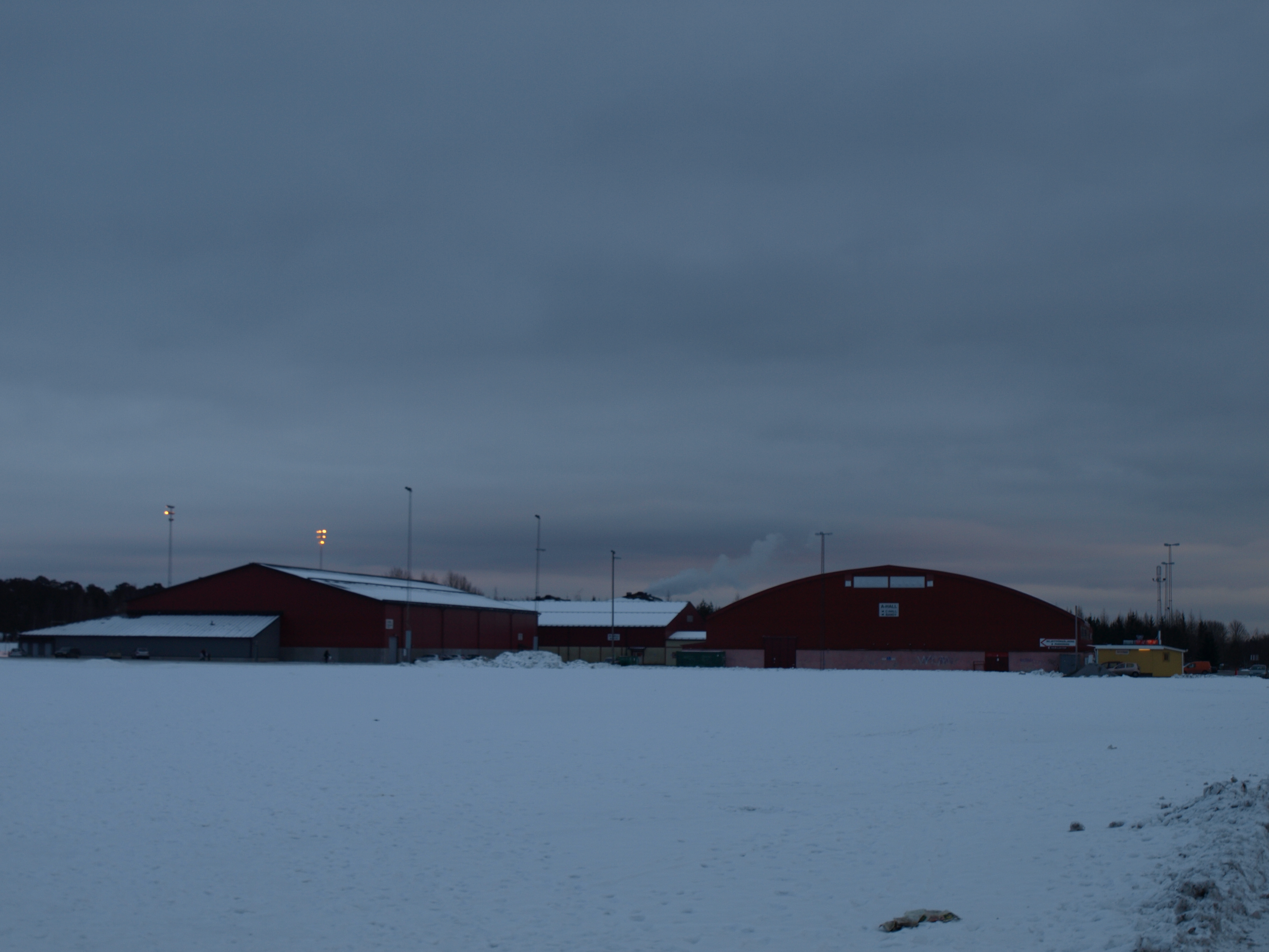 Gränby ice rinks, Uppsala, Sweden